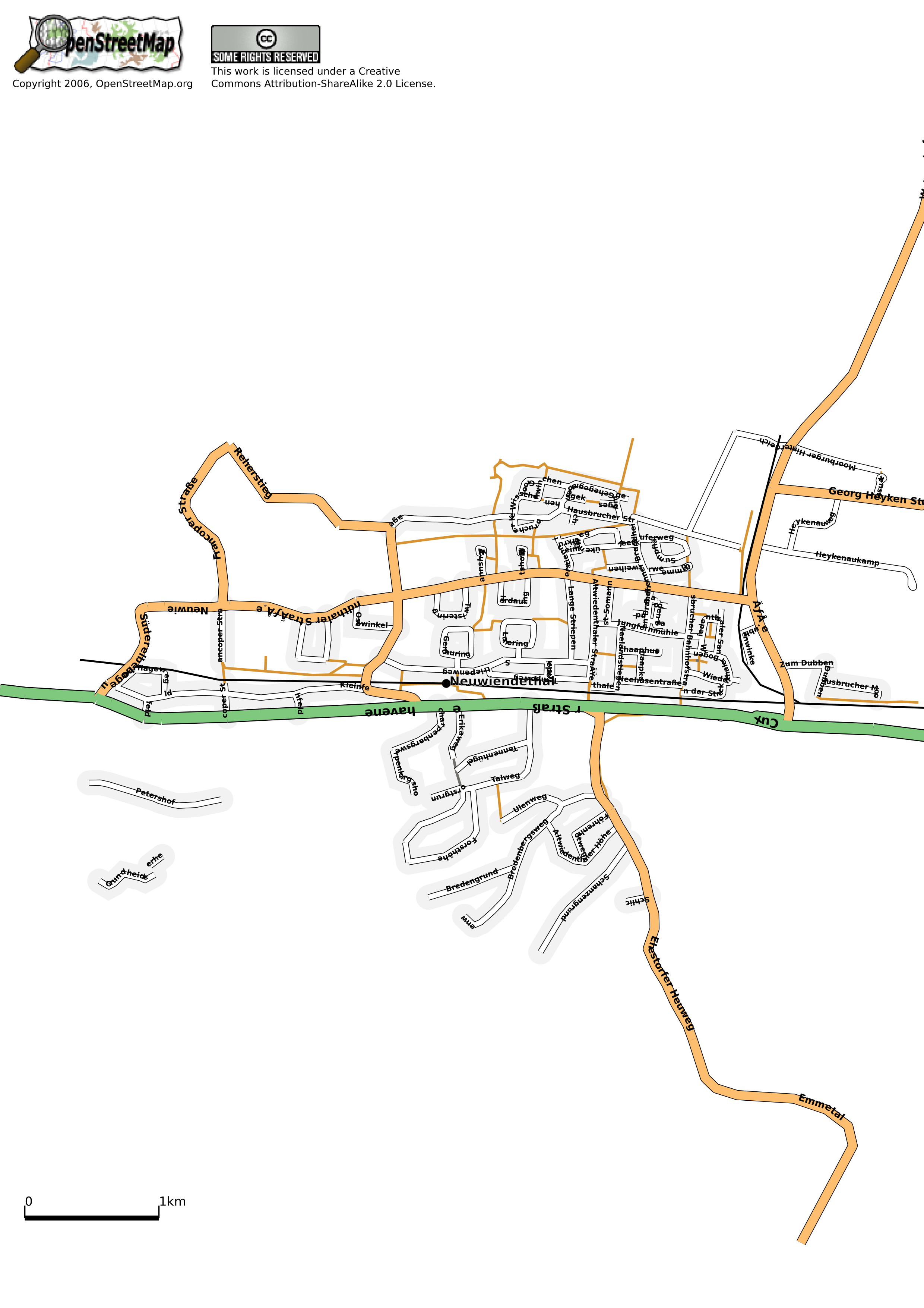 Map of Hamburg Hausbruch in PNG Format